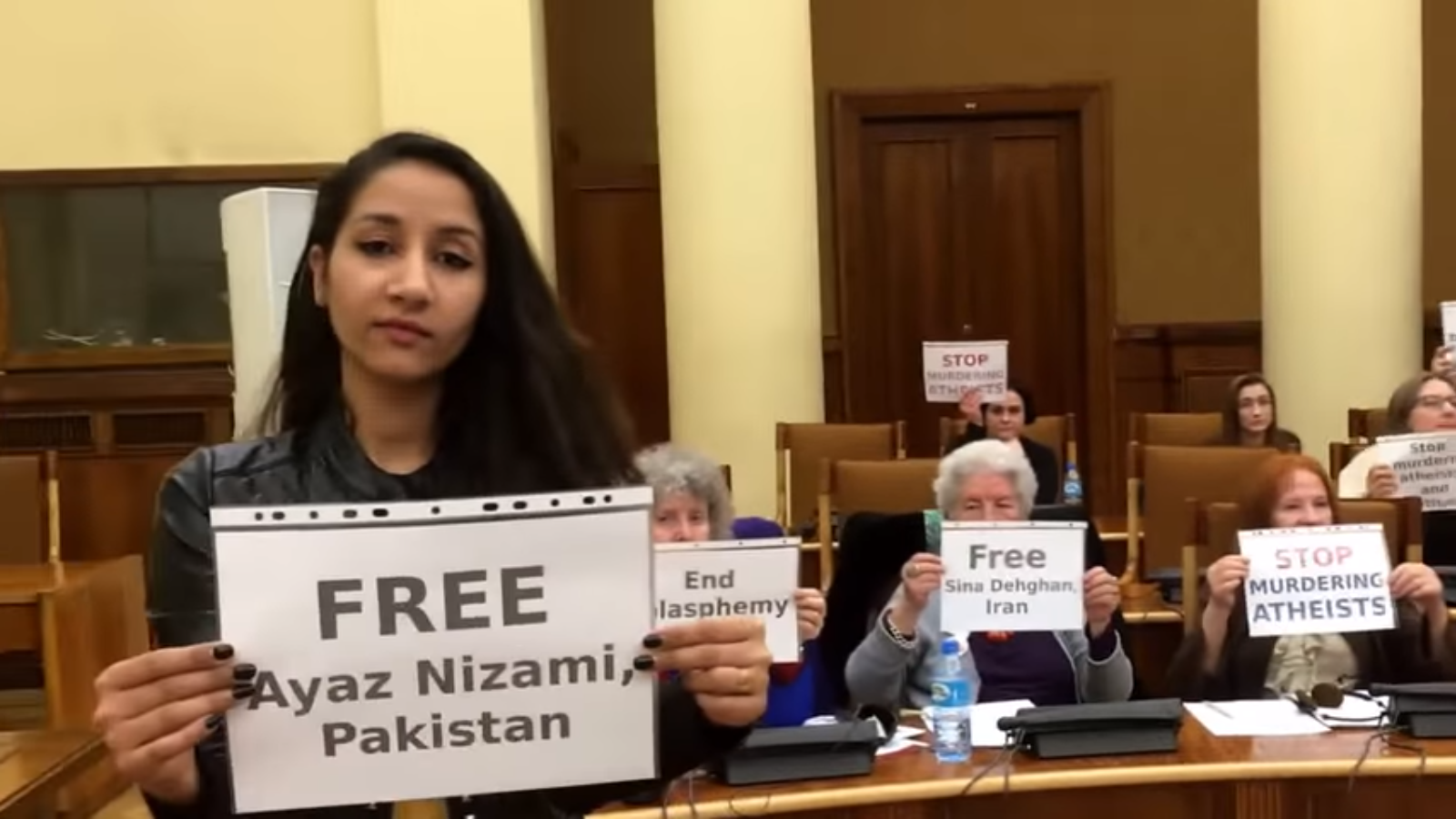 Fauzia Ilyas and others protesting for the release of Ayaz Nizami and other prisoners accused of blasphemy and apostasy, and a demand for such laws to be abolished. Filmed at the Atheist Days 2017 in Warsaw, Poland.